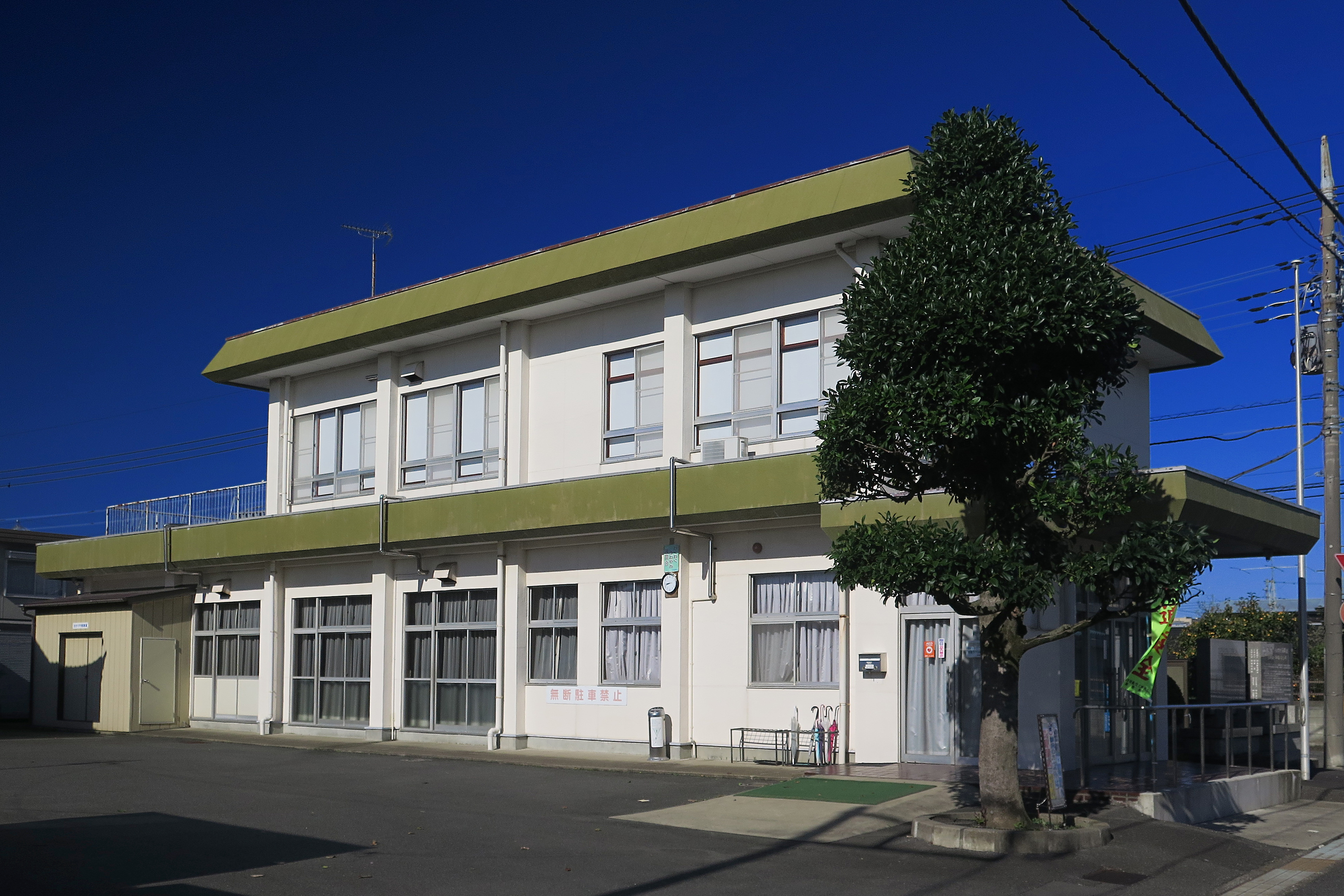 Asamadai Kaikan Ageo City, Saitama prefecture, Japan